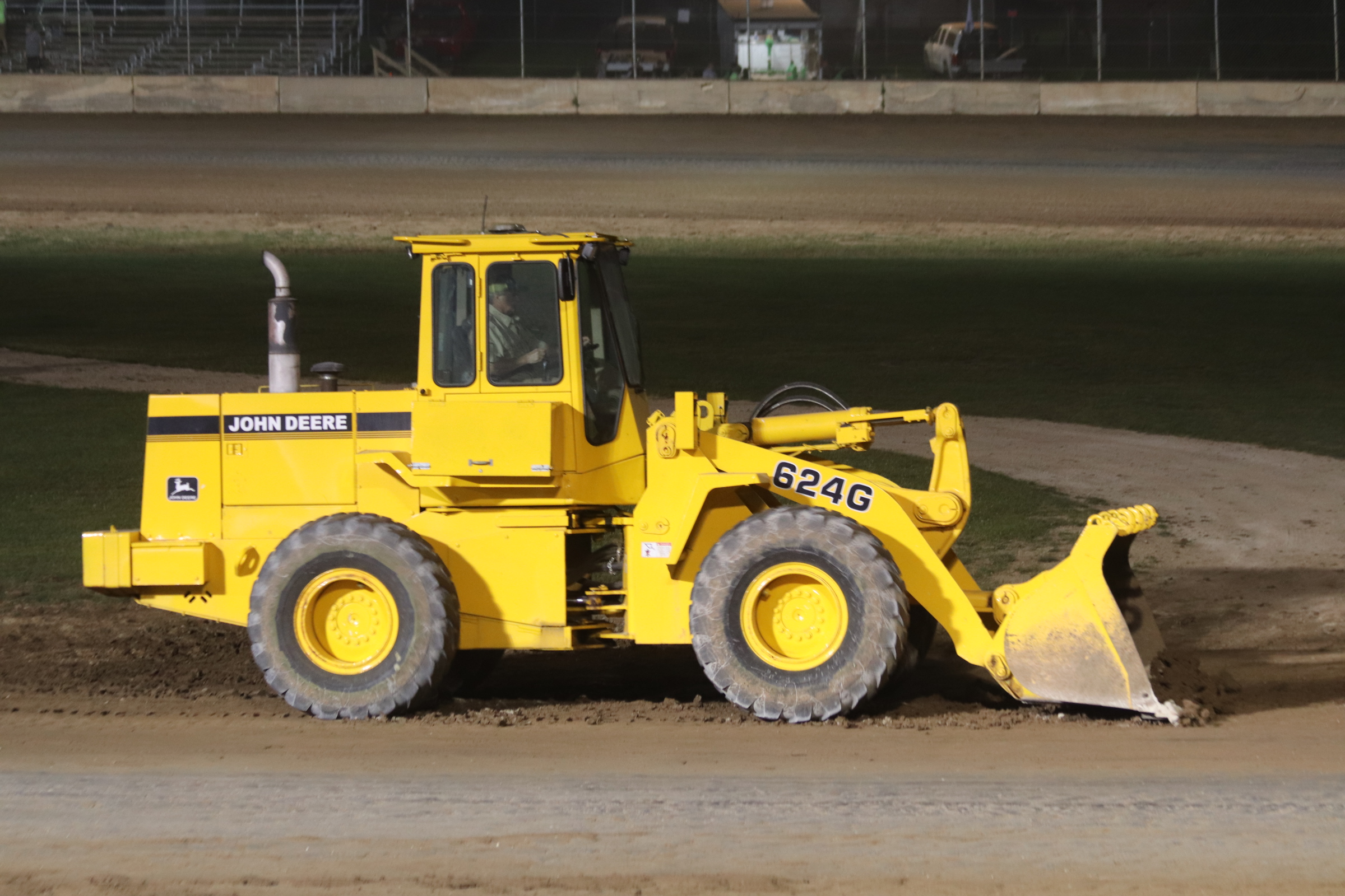 A John Deere 624G Wheel Loader cleaning up the stock car racing surface after a World of Outlaws Late Model race at the Plymouth Dirt Track at the Sheboygan County Fairgrounds.